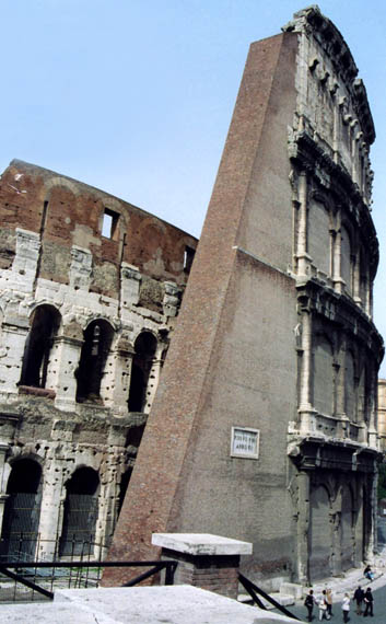 Pic of shoring at edge of Colusseum on Rome. Pic was taken by myself in 2004.